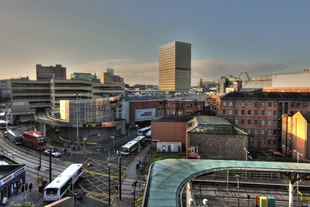 View of the Arndale Centre, Manchester